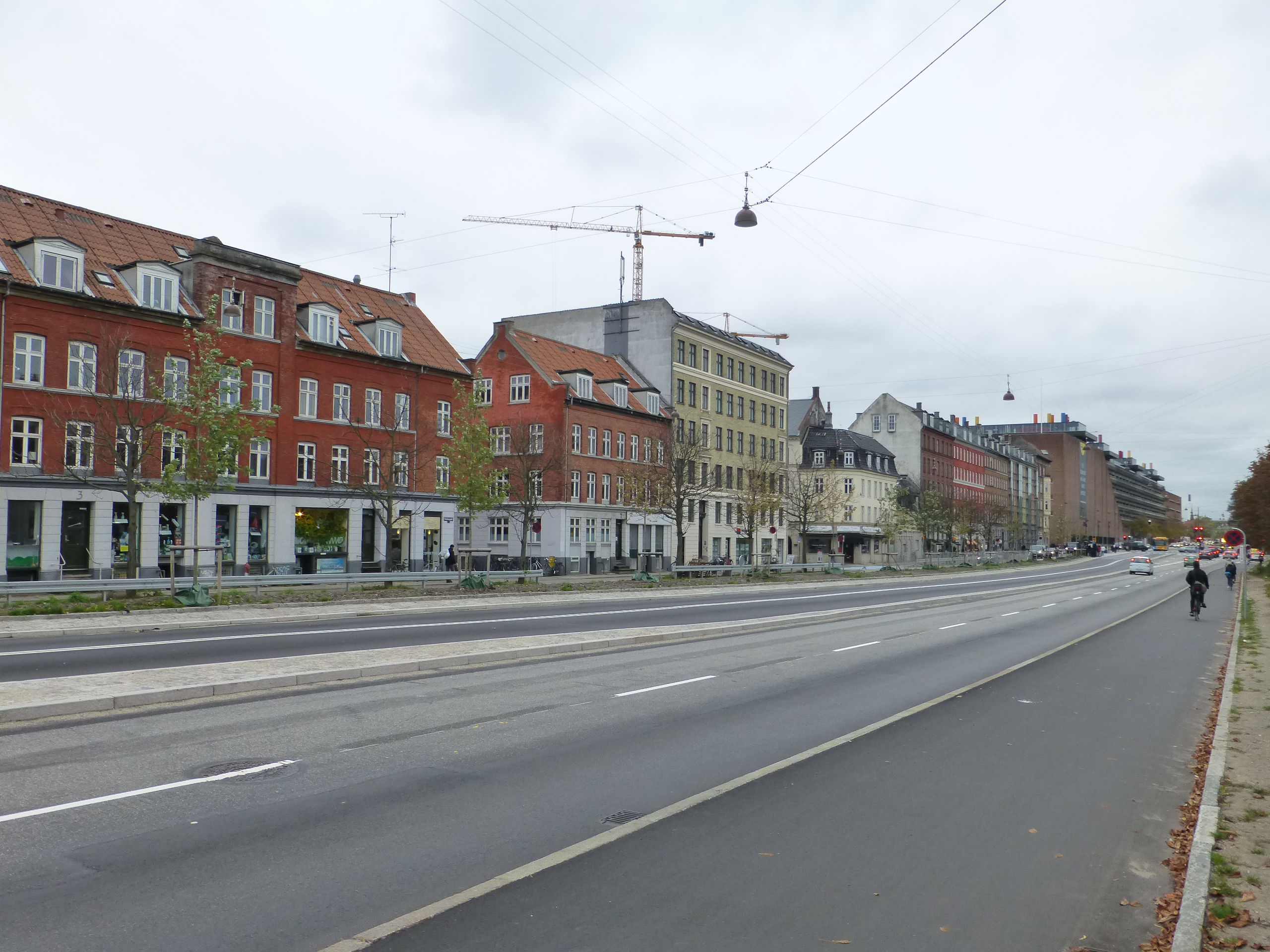 The street Fredensgade in Nørrebro in Copenhagen. In the middle the bus rapid transit Den kvikke vej.